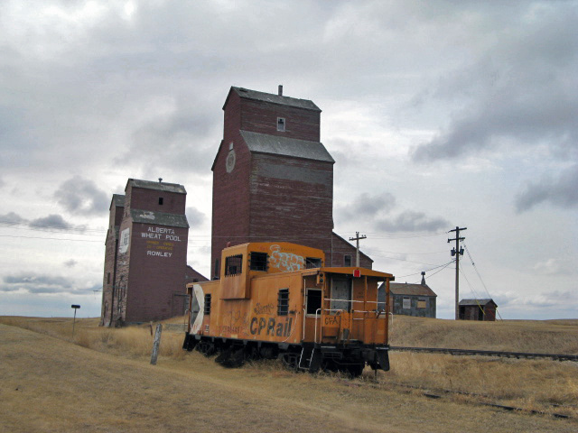 Grain elevators prior to restoration, Rowley, Alberta.